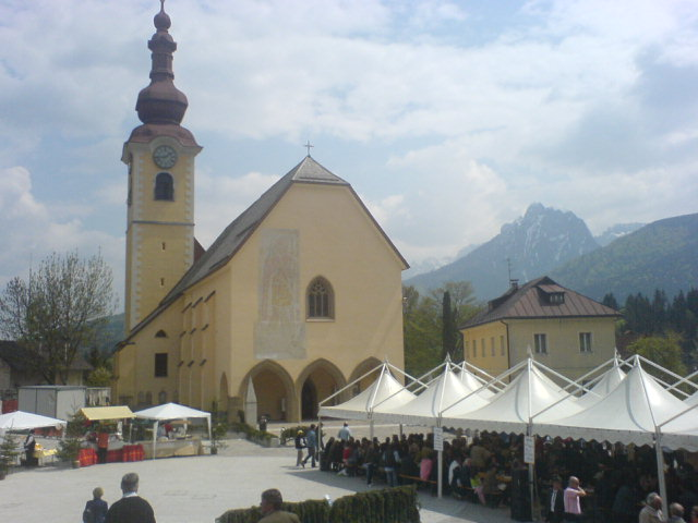 The parish church of Tarvisio